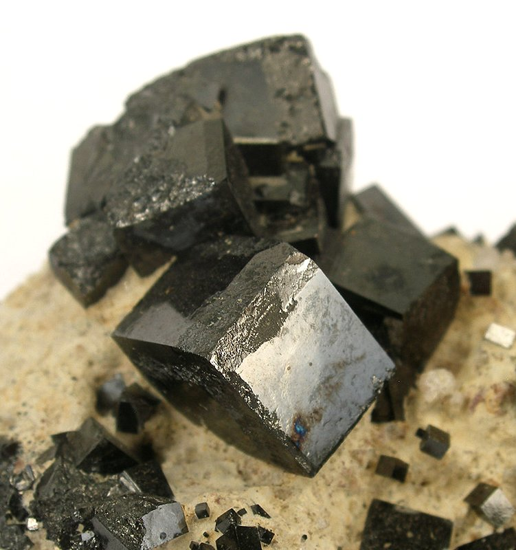 Magnetite Locality: ZCA Mine No. 4 (St Joe Mine; ZCA No. 4 mine), Balmat, Balmat-Edwards Zinc District, St Lawrence County, New York, USA (Locality at ) Size: cabinet, 11.5 x 4.6 x 4.5 cm Magnetite In the 1980s and early 1990s, the mineral collectors who pay attention to Eastern US material were shocked at the sudden appearance of incredible, lustrous, jet-black magnetite crystals up on the market from out of this deep mine (it extended down to 2500 feet according to MINDAT). These are, I think, among the world's finest magnetites for their amazing metallic lustre and unusually sharp cubic habits (most magnetite is octahedral). This specimen is a rare cabinet piece featuring sharp crystals to nearly 1.5 cm, although the best crystal is on the left hand portion, and is 1 cm across. A superb example from a now closed and defunct locality which, for a brief time, really gave collectors something unprecedented. Ex. Robert Whitmore Collection.